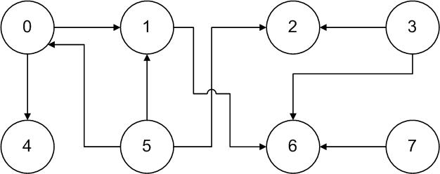 directed graph example